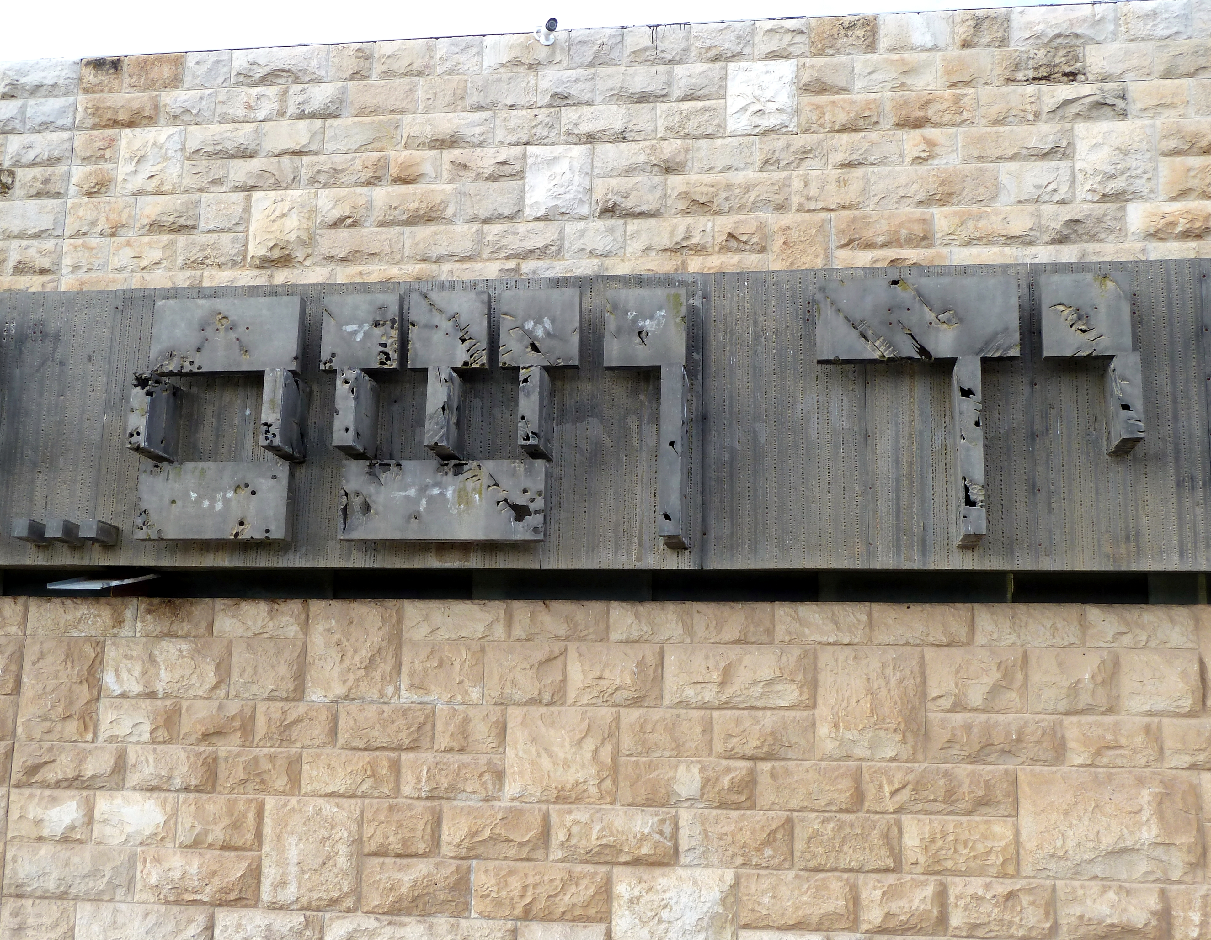 Jerusalem Yad Vashem in hebrew (יד ושם)